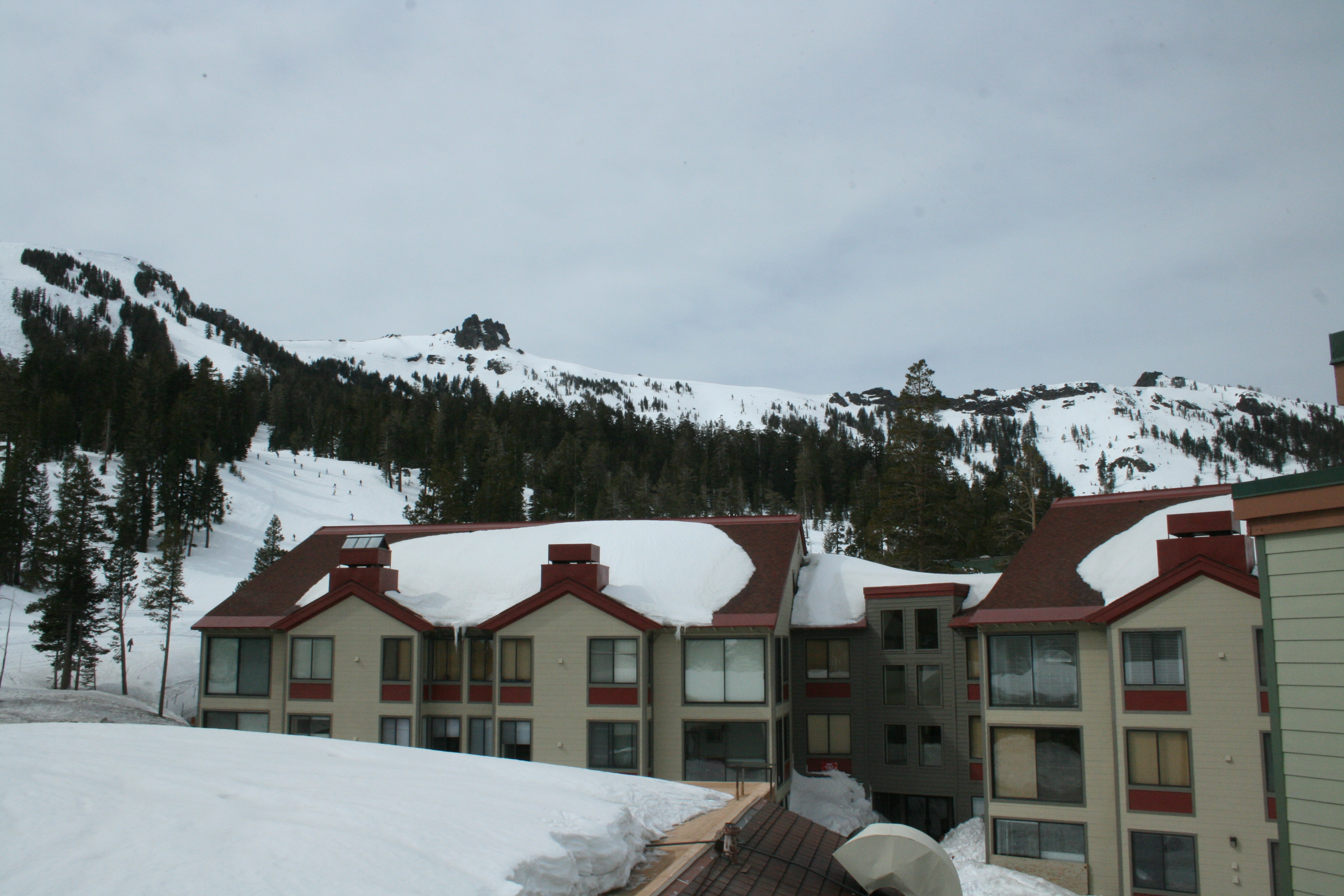 Kirkwood Mountain Resort condos in the morning